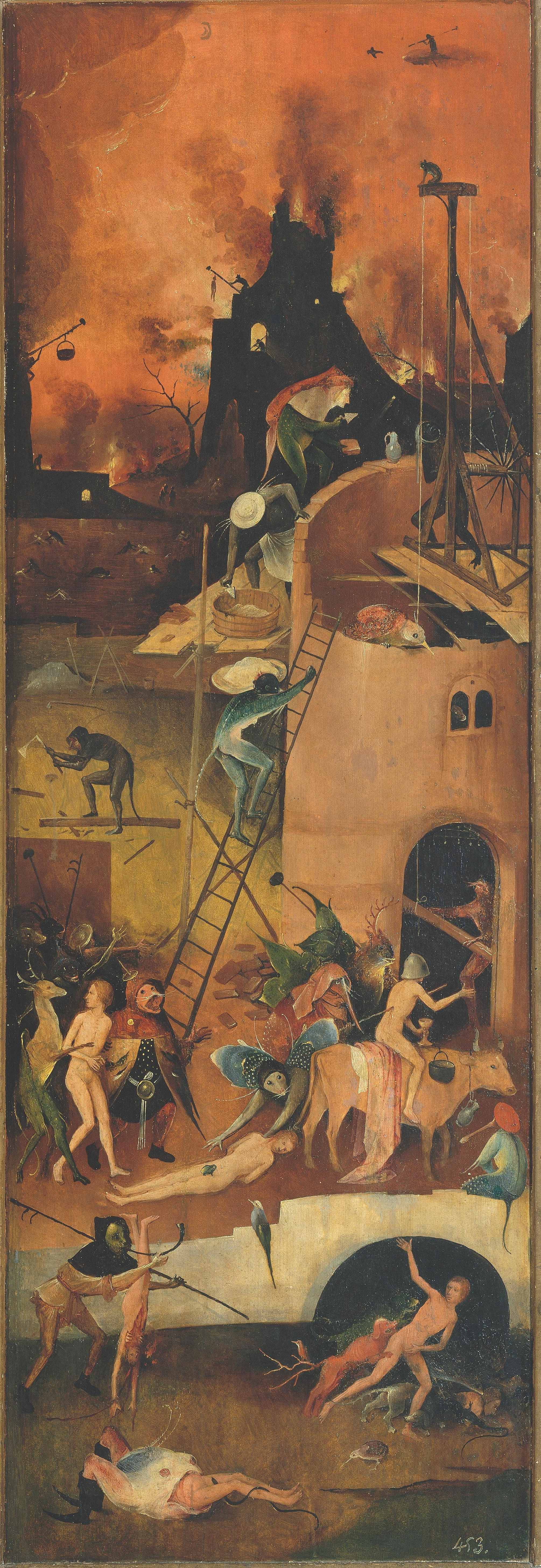 Right panel of the triptych "The Haywain" by Hieronymus Bosch: Located: Prado Museum, Madrid.